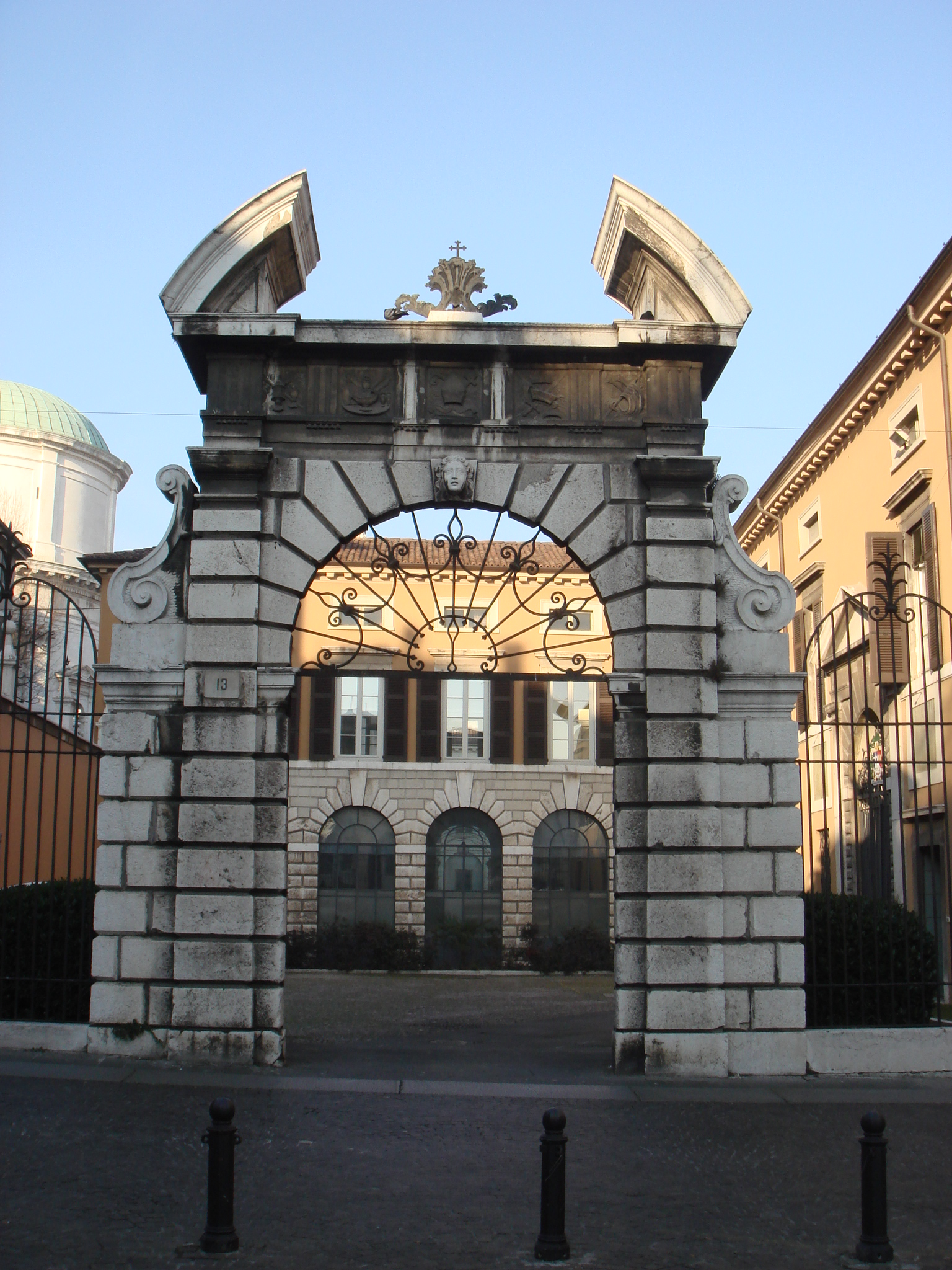 Entrance of Vescovadi (Brescia). Picture by Stefano Bolognini.